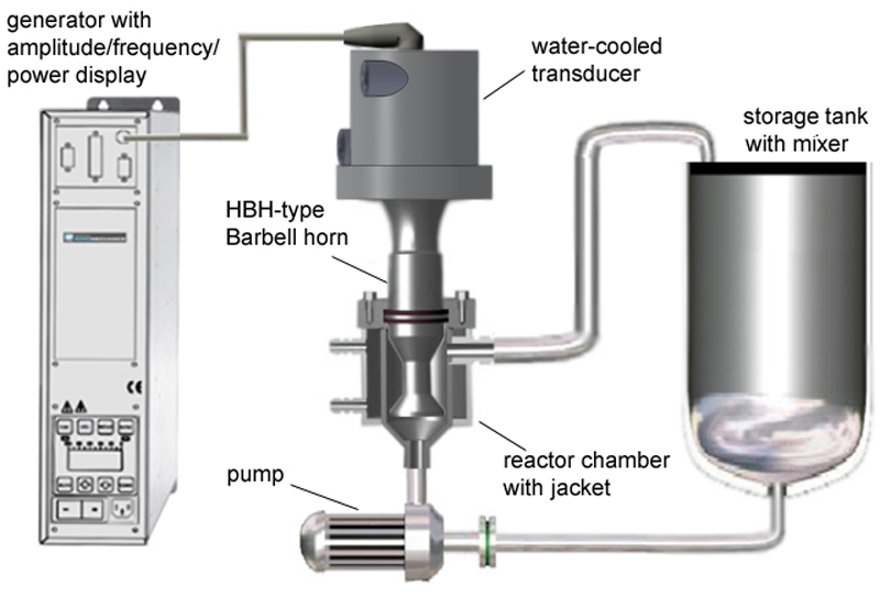 Schematic of bench (BSP-1200) and industrial (ISP-3000) scale ultrasonic liquid processors produced by Industrial Sonomechanics, LLC.